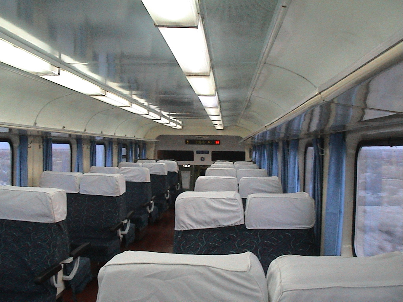 A railroad passenger car of China. This image was taken by User:Yaohua2000 at 2006-04-25 23:44:09 UTC. 5801次双层普通普快列车，乌鲁木齐—阿拉山口，北京时间2006年04月26日07时44分09秒摄于06车上层软座车厢艾比湖站至博乐站区间。